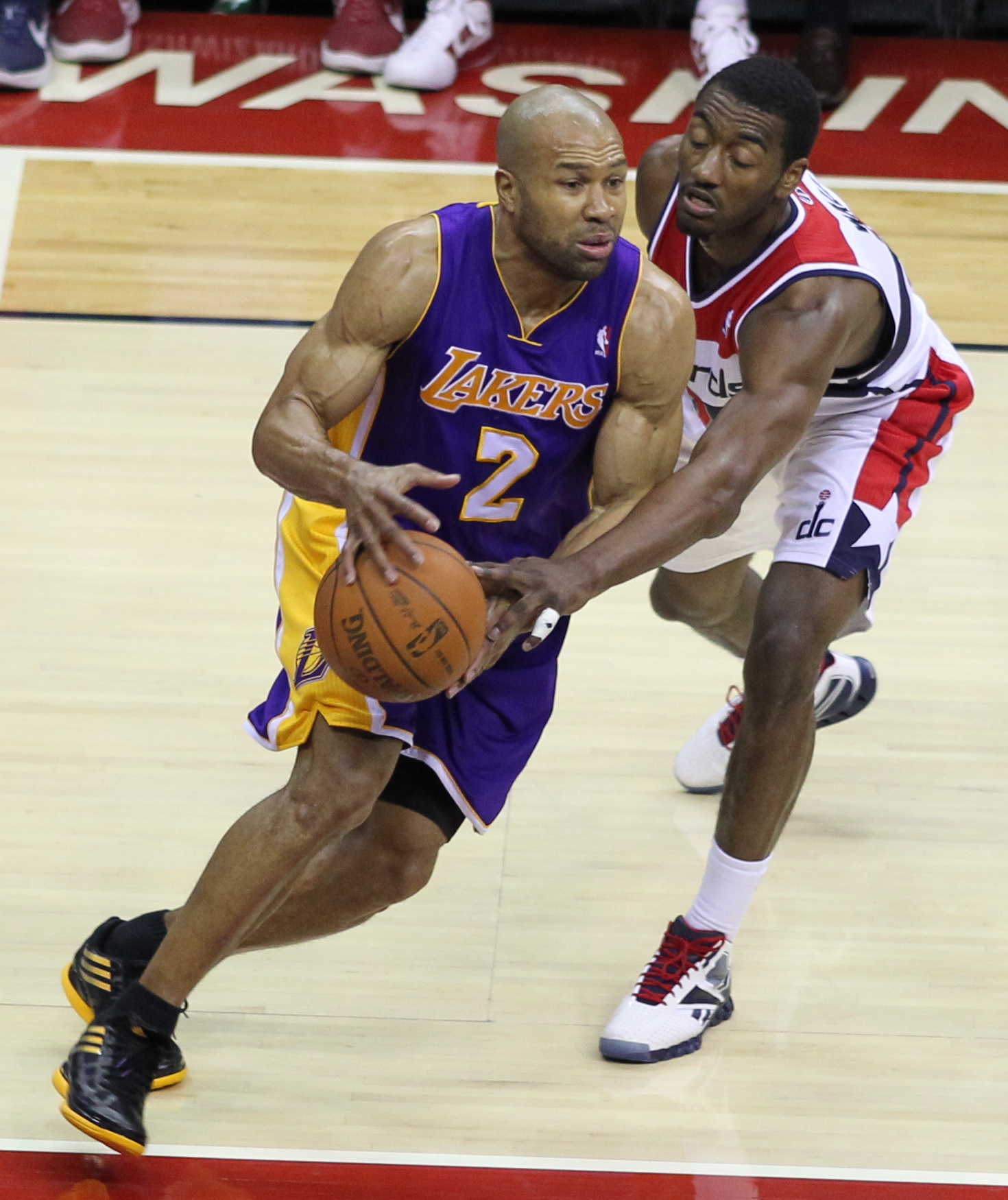 Derek Fisher of the Los Angeles Lakers is guarded by John Wall of the Washington Wizards during a game at the Verizon Center on March 7, 2012 in Washington, DC.